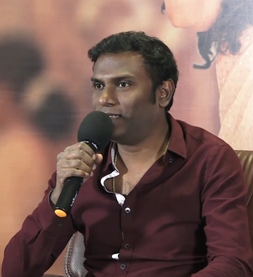 Music composer Anup Rubens promoting the Telugu film Hello at Hyderabad, India